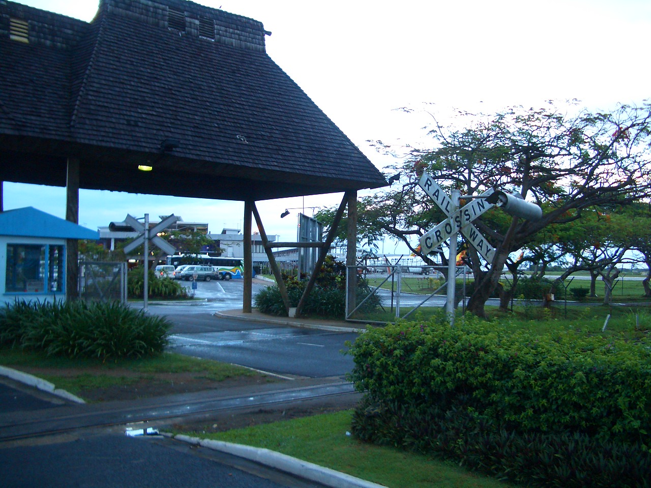 The gates of the Nadi Airport, Fiji. Note the very narrow gage (750mm?) tracks of the apparently disused sugarcane railway in front of the gates